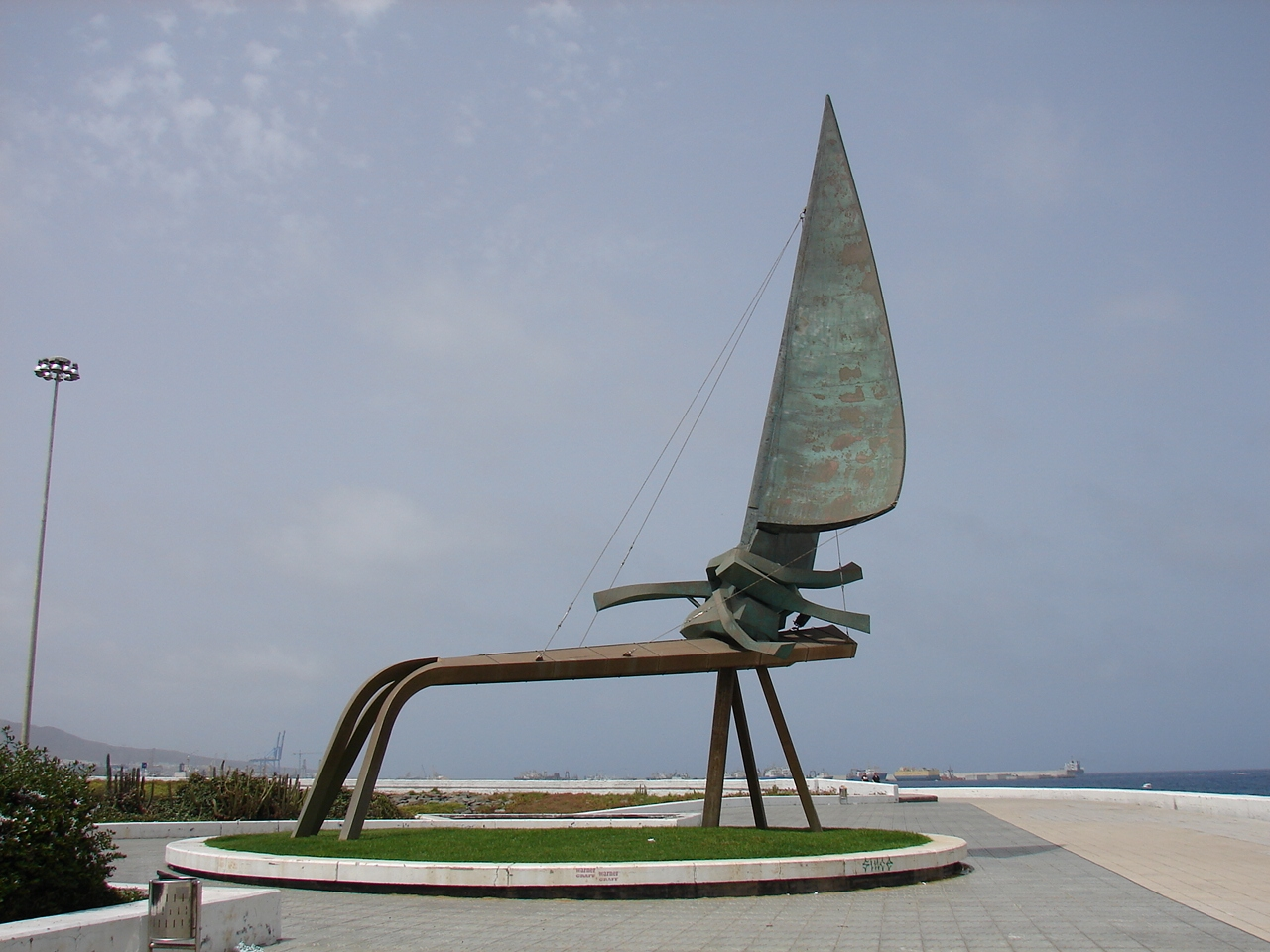 Tribute to a great tradition Canarian Sailing.